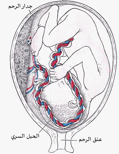 Fetus in utero, between fifth and sixth months.